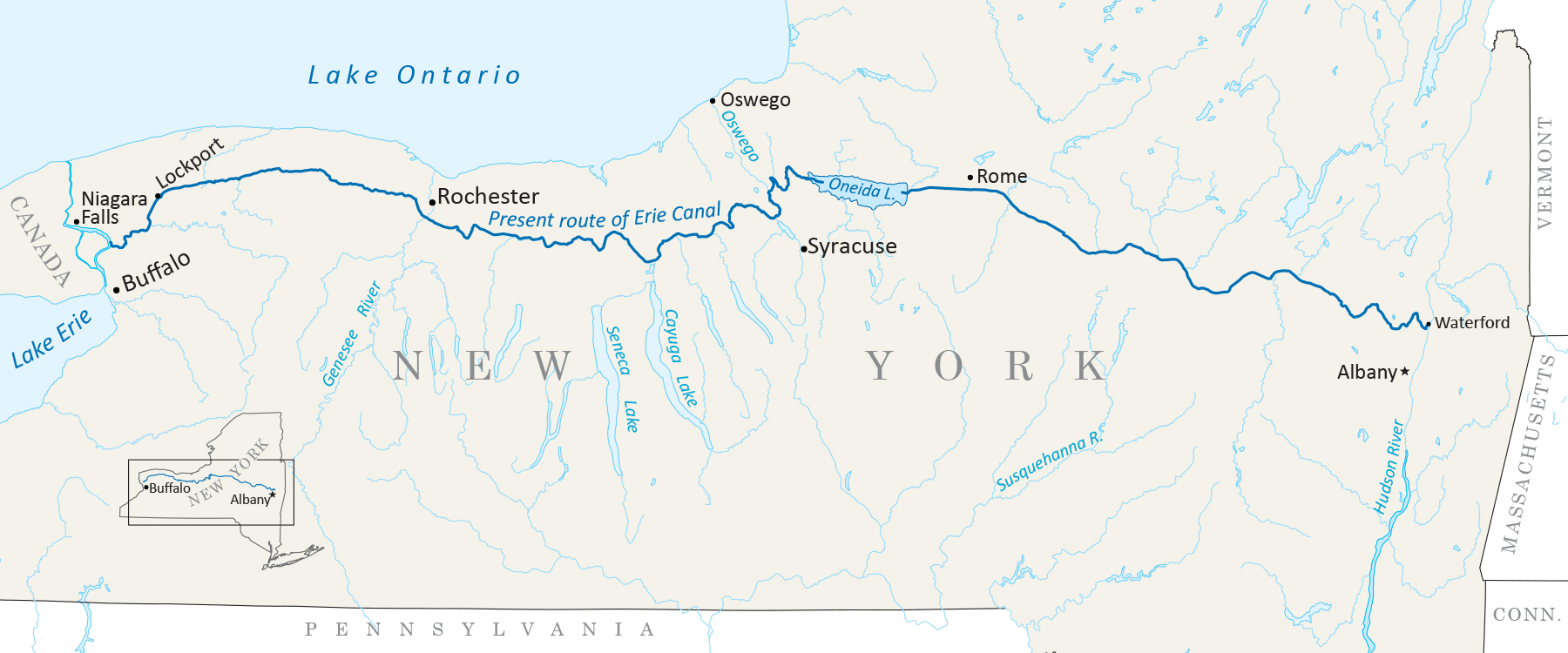 Albers Equal Area Conic CM: -76.5, SP: 29.5, 45.5 Sources: USGS National Map 1 Million scale data ( & the NYS GIS Clearinghouse (